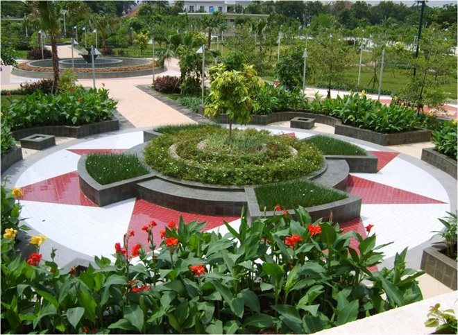 Taman Menteng Jakarta